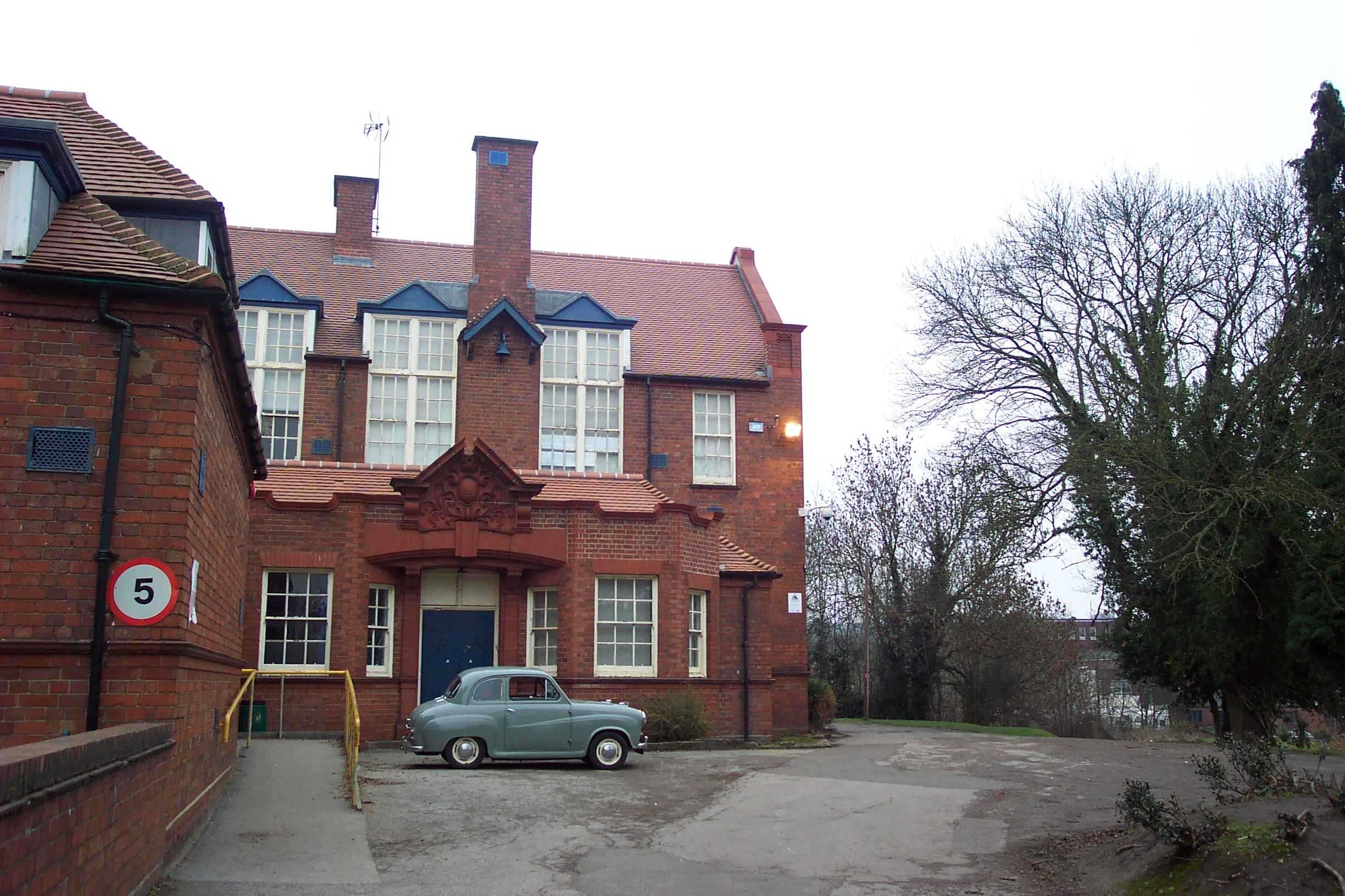 The 1908 Block of The Earls High School, Halesowen. The Author's 1957 Austin A35.